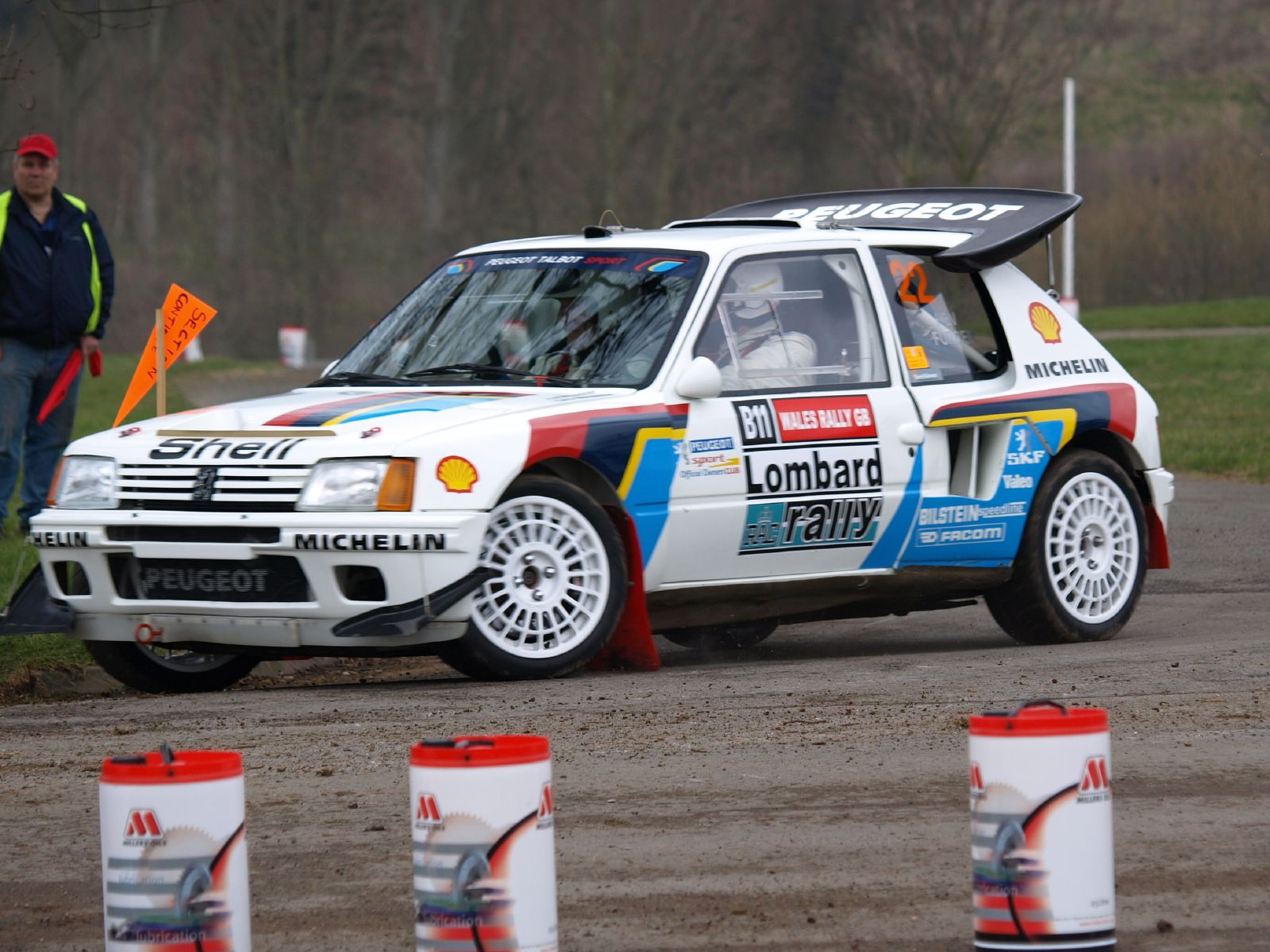 Peugeot 205 Turbo 16 driven at Race Retro 2008, the International Historic Motorsport Show, at Stoneleigh Park, Coventry, England.